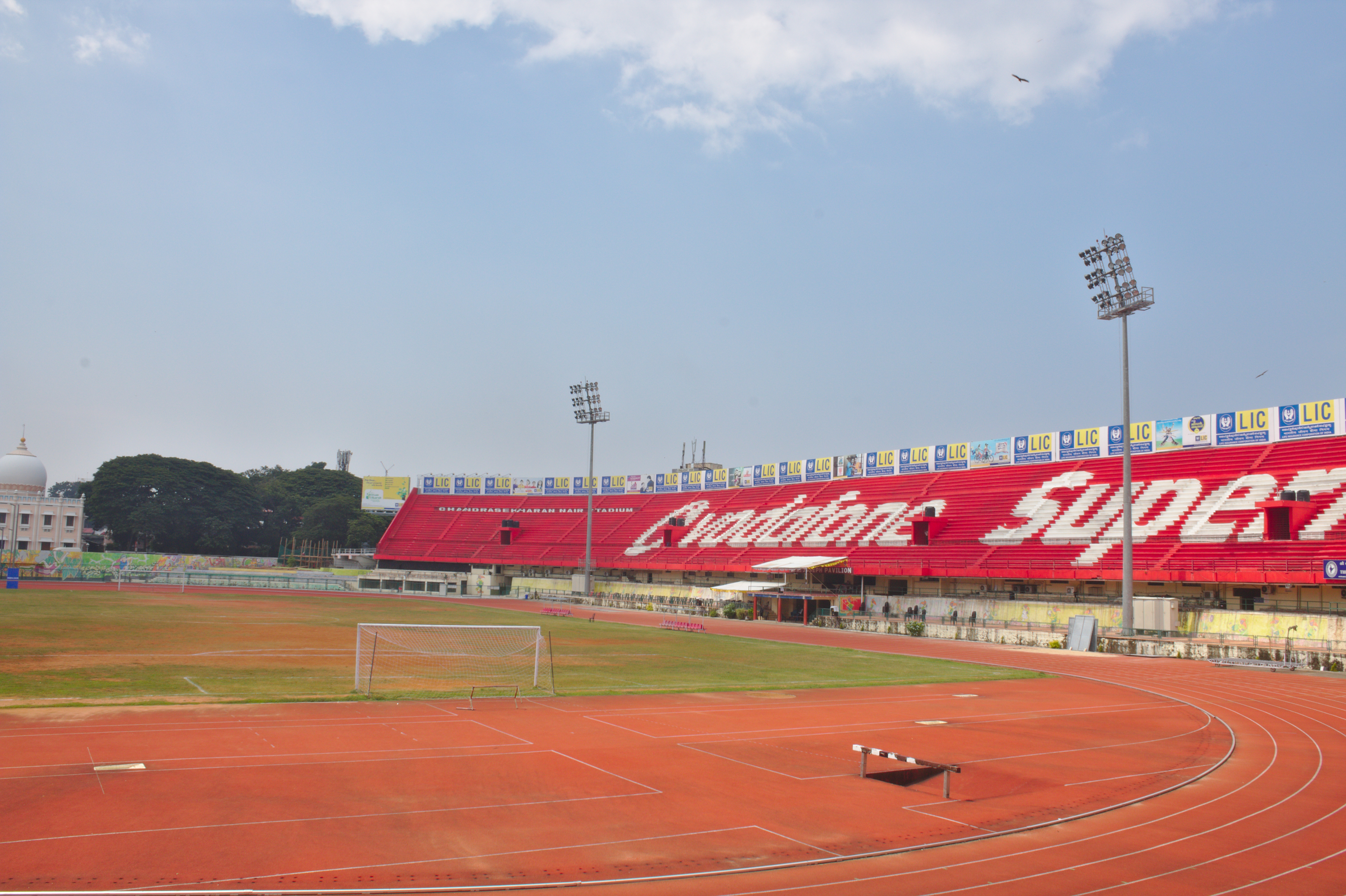 Chandrashekharan Nair Stadium, Thiruvananthapuram, Kerala, India